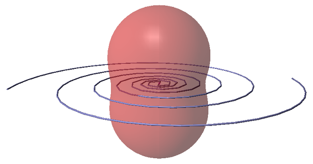 Logarithmic spiral antenna, designed with 4NEC2, along with its radiation pattern.